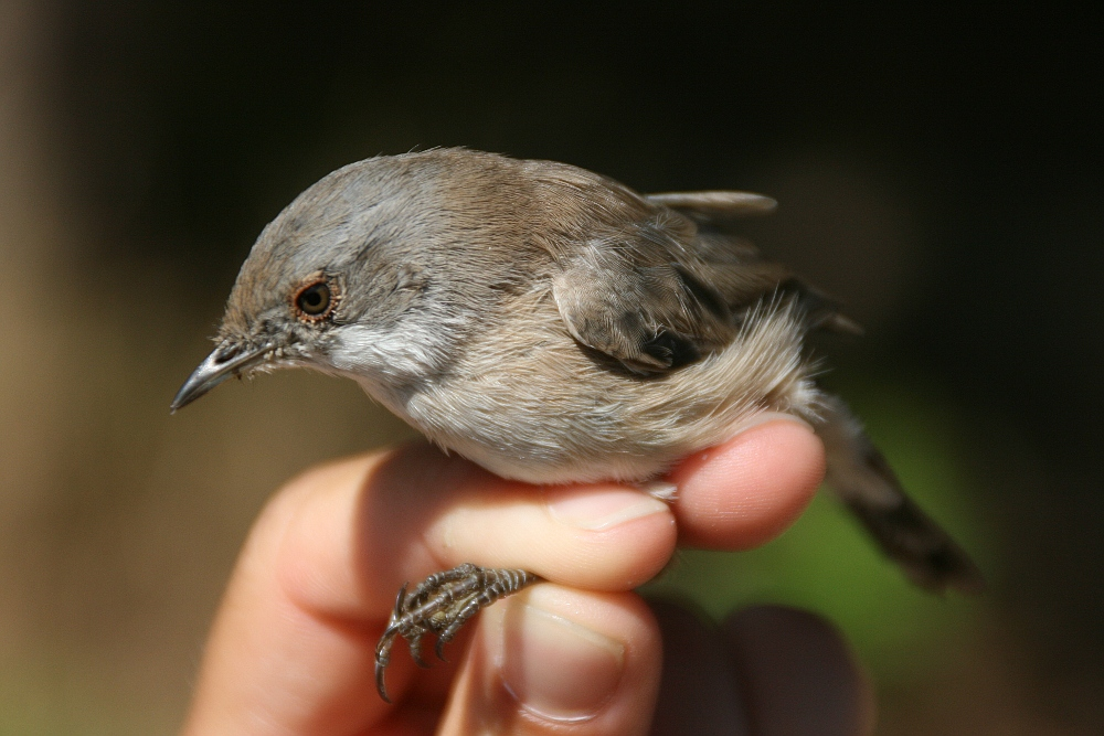 A female sardinian warbler (Sylvia melanocephala)